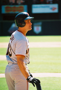 Omar Vizquel of the San Francisco Giants in the on deck circle.